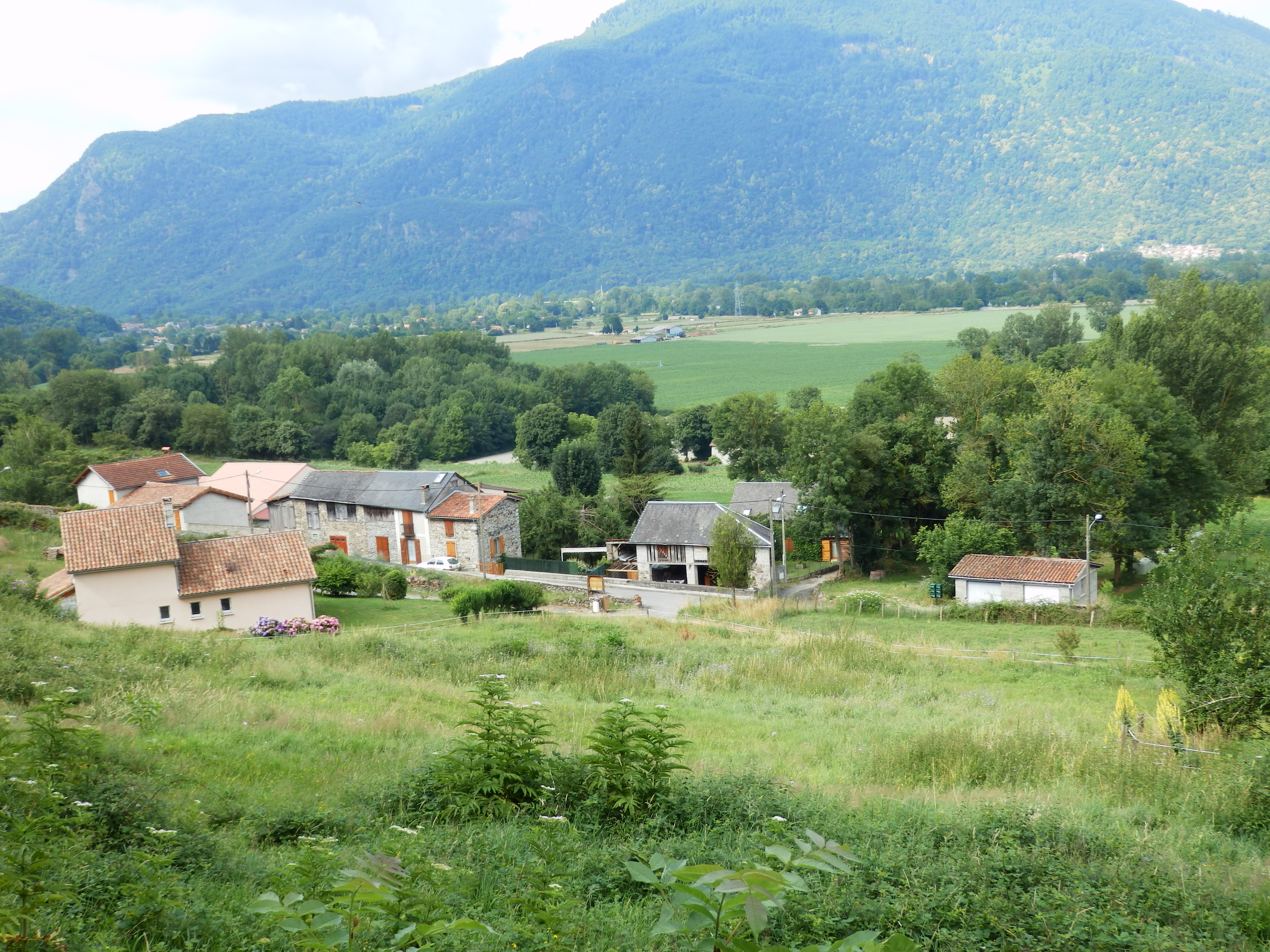 Frontignan-de-Comminges, Haute-Garonne, France